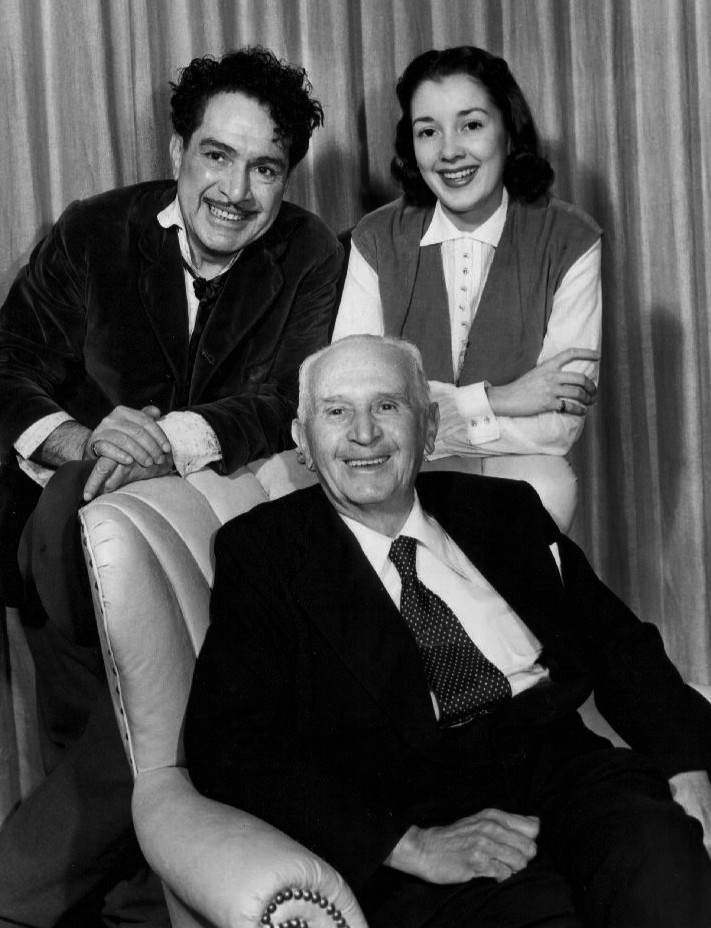 Publicity photo of three generations of the Naish family. Seated is Patrick Naish; standing are his son, J. Carrol, and his granddaughter, Elaine. J. Carrol was the star of the radio program Life With Luigi; Elaine Naish was an actress and frequently played supporting roles on the show.